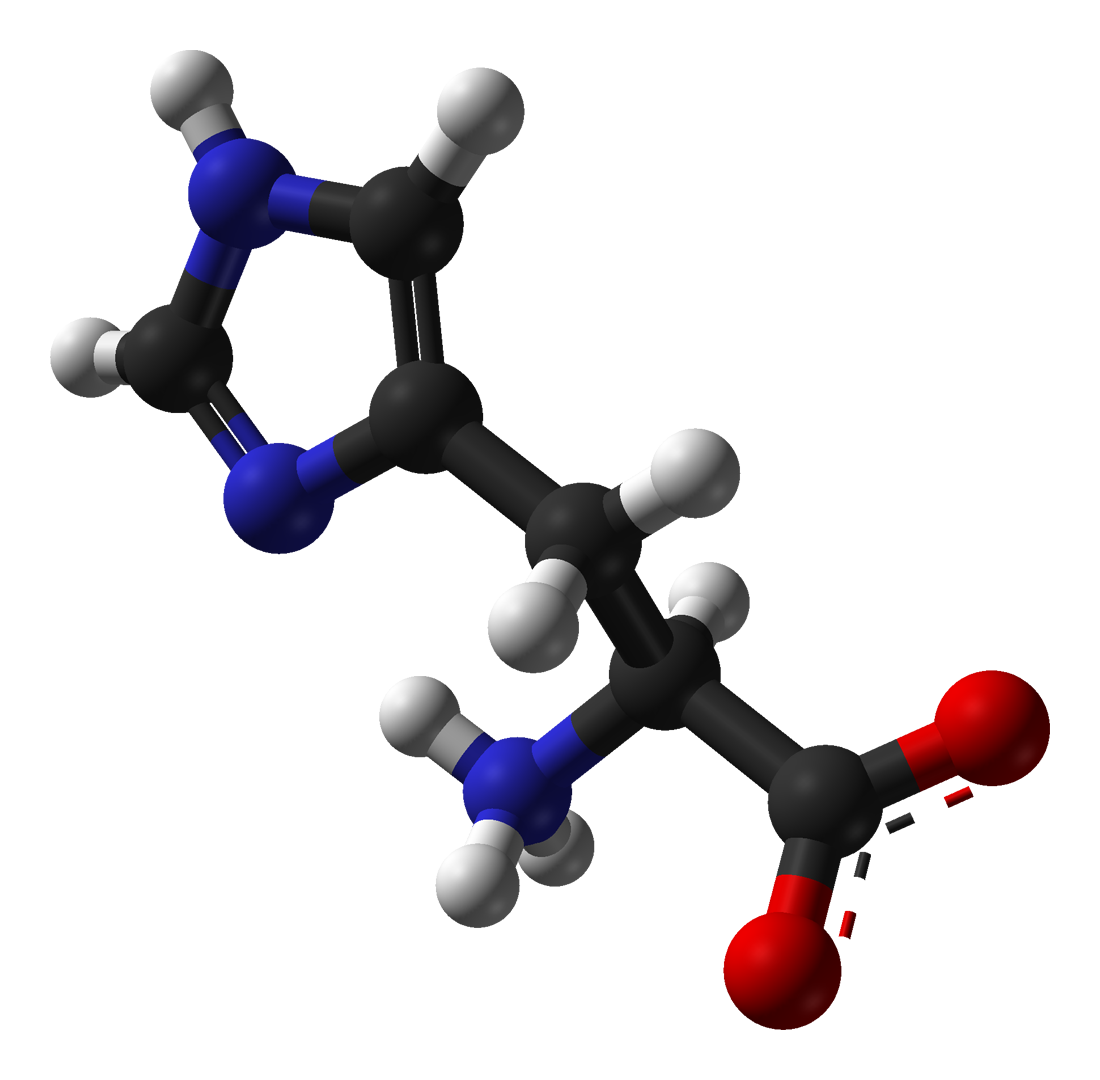 Ball-and-stick model of the L-histidine zwitterion, as found in the solid state. X-ray diffraction data from Z. Krist. (1993) 207, 111. Model constructed in CrystalMaker 8.1. Image generated in Accelrys DS Visualizer.